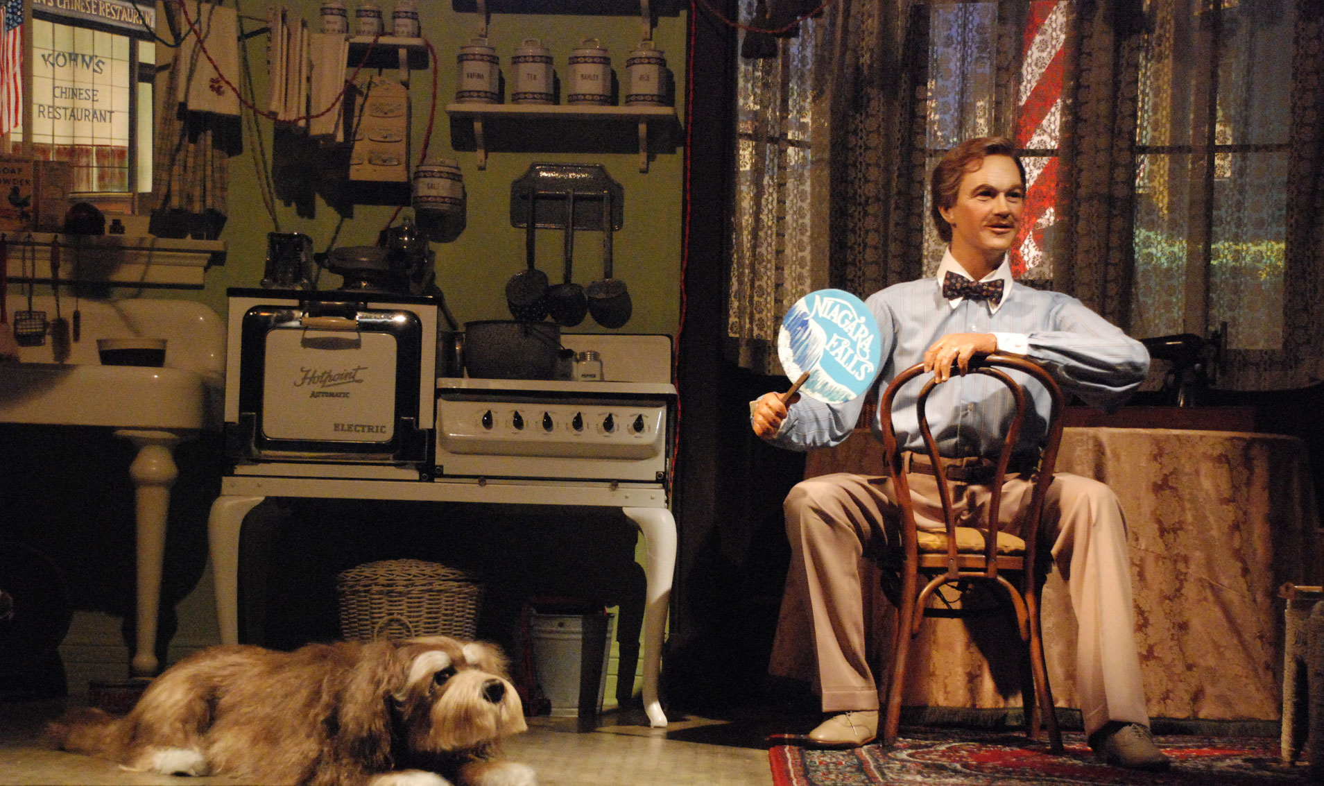 Walt Disney World - Carousel of Progress - 1920